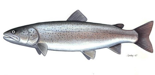 This fish is Hucho hucho Linnaeus 1758 which lives in river Danube in Hungary